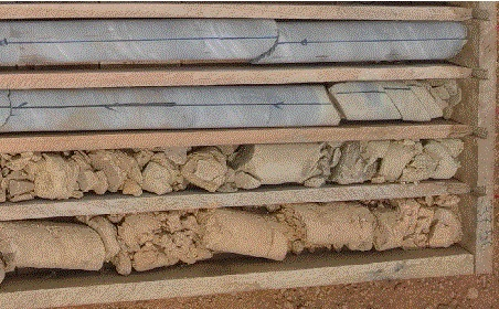 Weathered limestone cores, from clay to solid core. Samples from the West Congolian carbonate deposit, Kimpese, Democratic Republic of Congo.